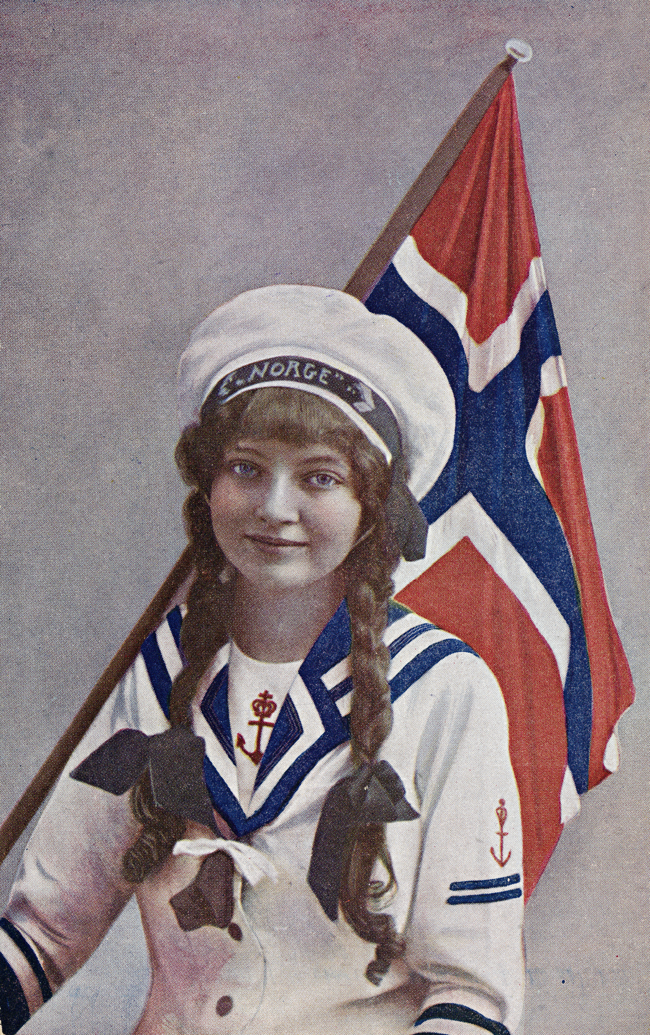 Tittel / Title: "Norge" Beskrivelse / Description: Postkort. Dato / Date: 1914 Fotograf / Photographer: ukjent / unknown Utgiver / Publisher: M. & Co. Eier / Owner Institution: Nasjonalbiblioteket / National Library of Norway Lenke / Link: Bildesignatur / Image Number: blds_05733